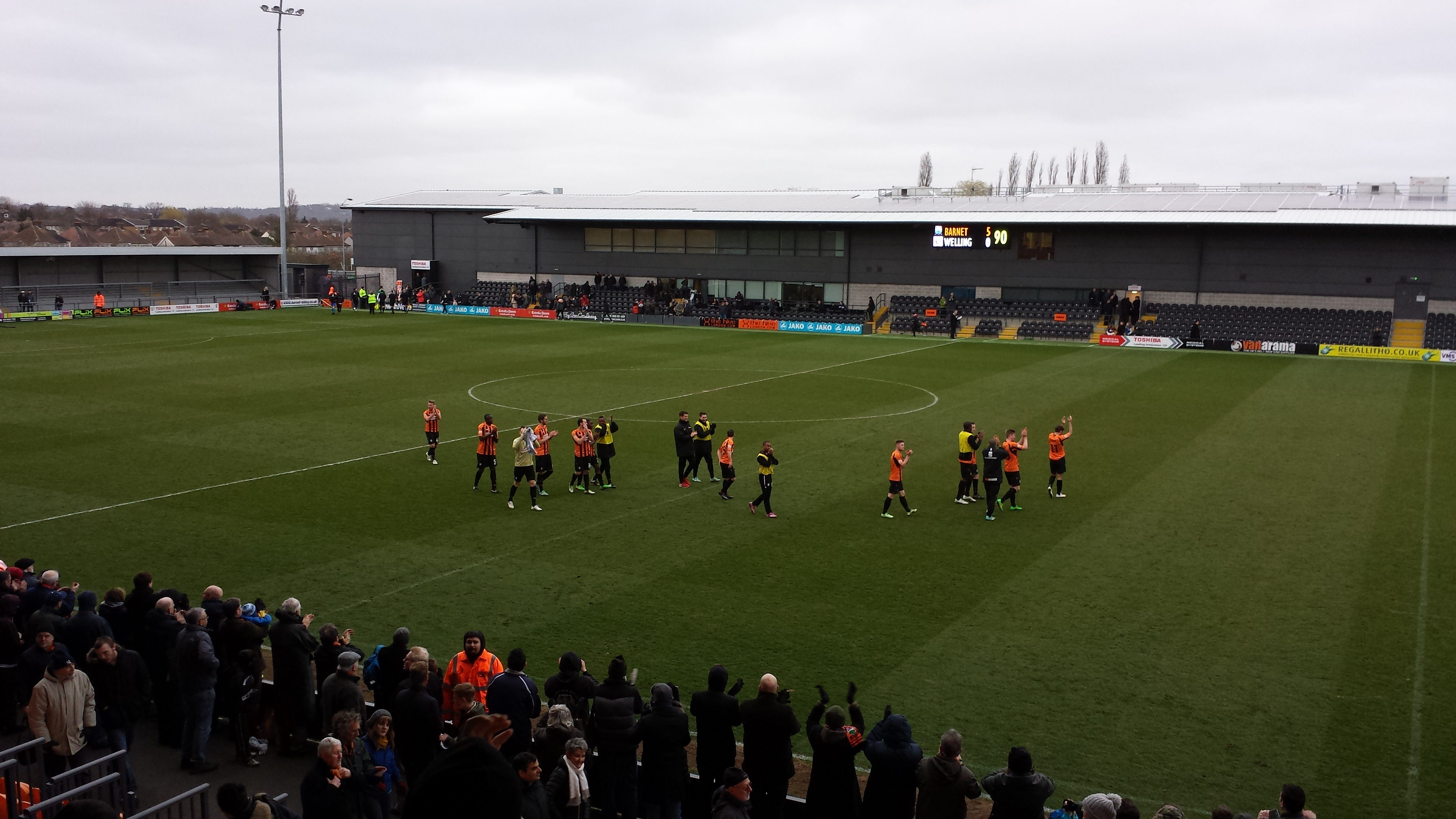 View from the main stand after Barnet's 5-0 defeat of Welling United on 21st of March 2015